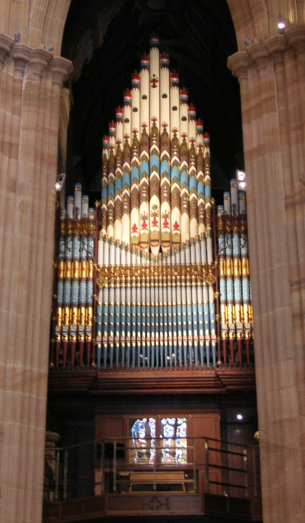 The organ of St Andrew's Anglican Cathedral, Sydney